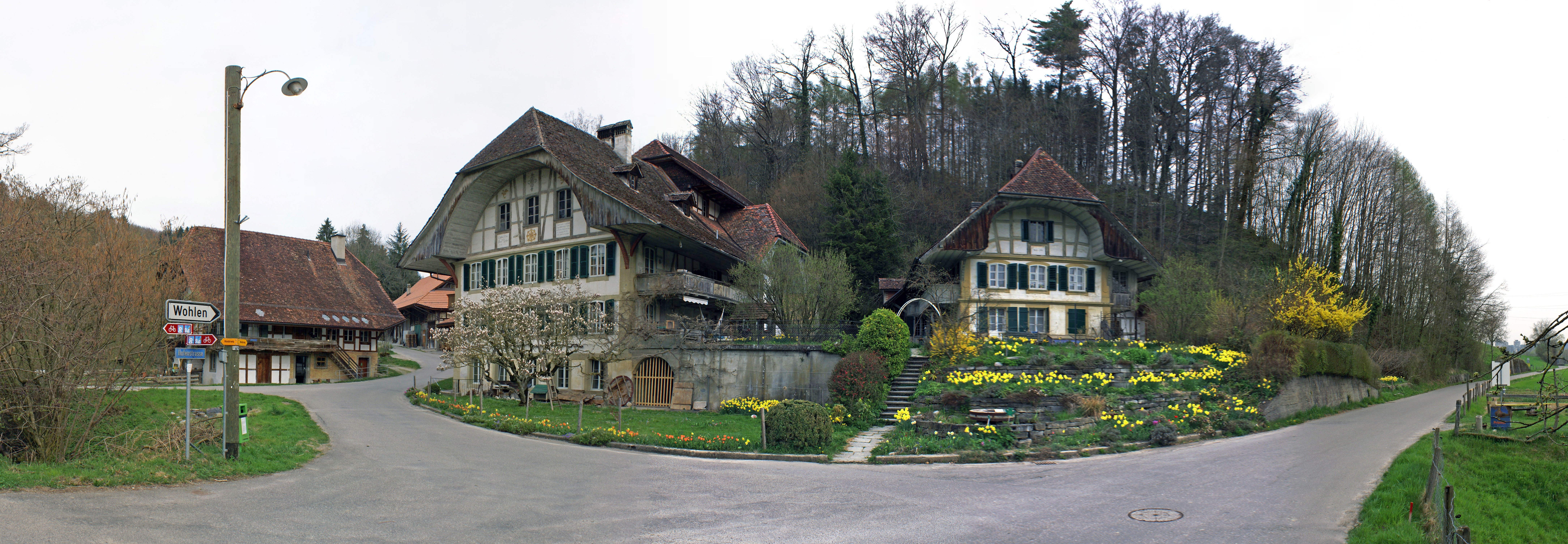 The Hofenmühle is a 18th century water mill in the municipality of Wohlen near Berne, Switzerland.